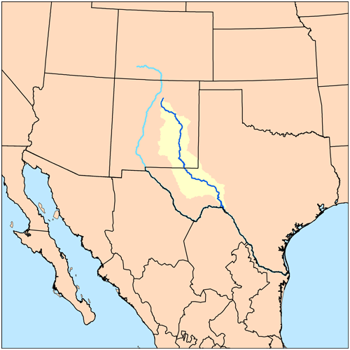 Map of the Pecos River watershed.